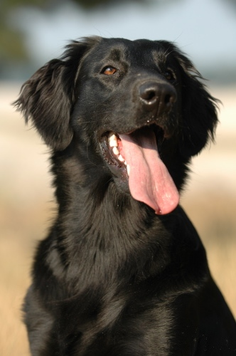 Flatcoat retriever teef.